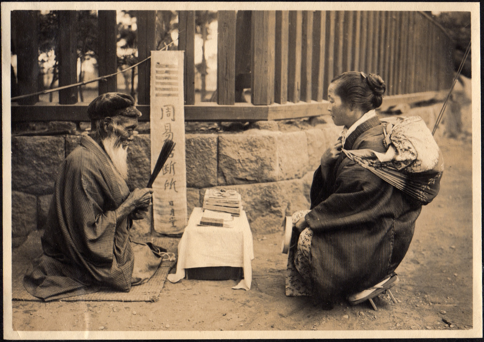 My spouse's uncle Elstner Hilton took this photo in Japan between 1914 and 1918. I do not know whether the man is a fortune teller, but the image suggests it. If anyone would like to offer a different interpretation, I would welcome it. Flickr Tags: fortune teller woman consulting fortune teller Old Japan vintage photo of Japan Japan 1914 - 1918 prewar japan 日本 昔の日本 大正時代 周易占断所 日月堂.